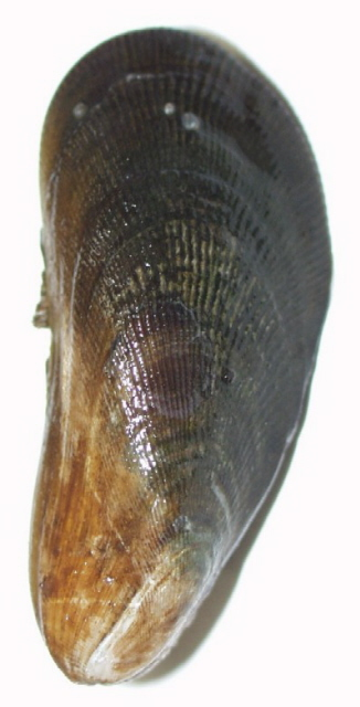 Atlantic ribbed mussel, a saltwater mollusk found on east coast